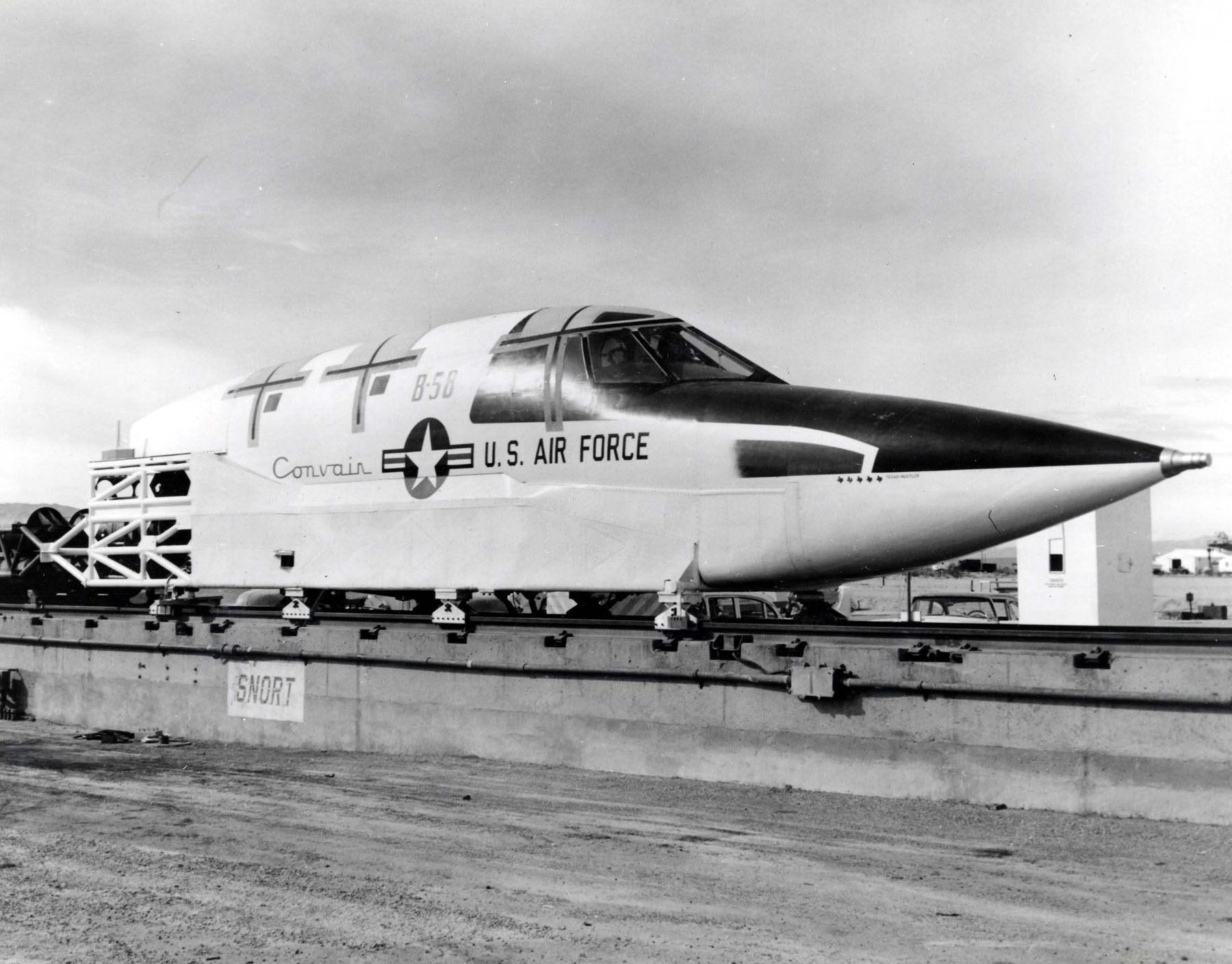 Convair B-58 Ejection Capsule 3-4 front view